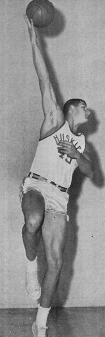 American college basketball player Doug Smart with the University of Washington Huskies from the 1959 Tyee yearbook.